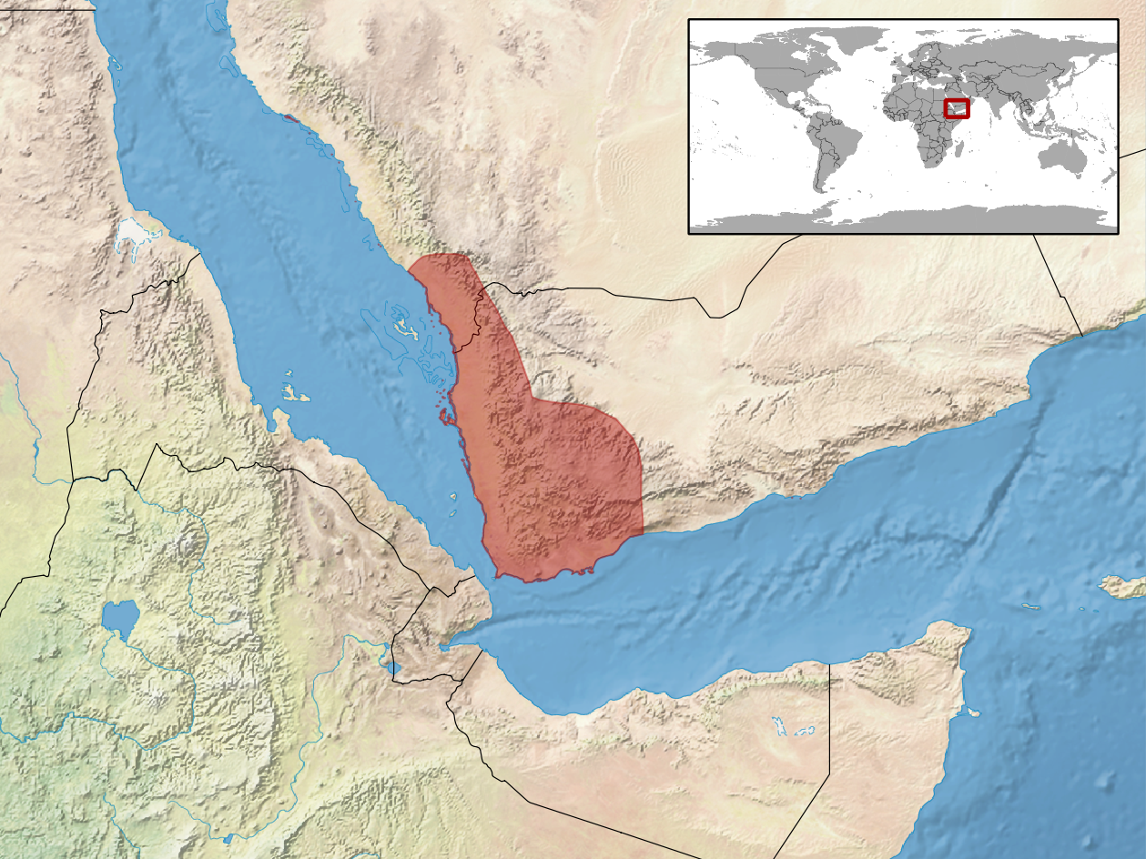 geographic distribution of Echis borkini (Native: Saudi Arabia; Yemen)